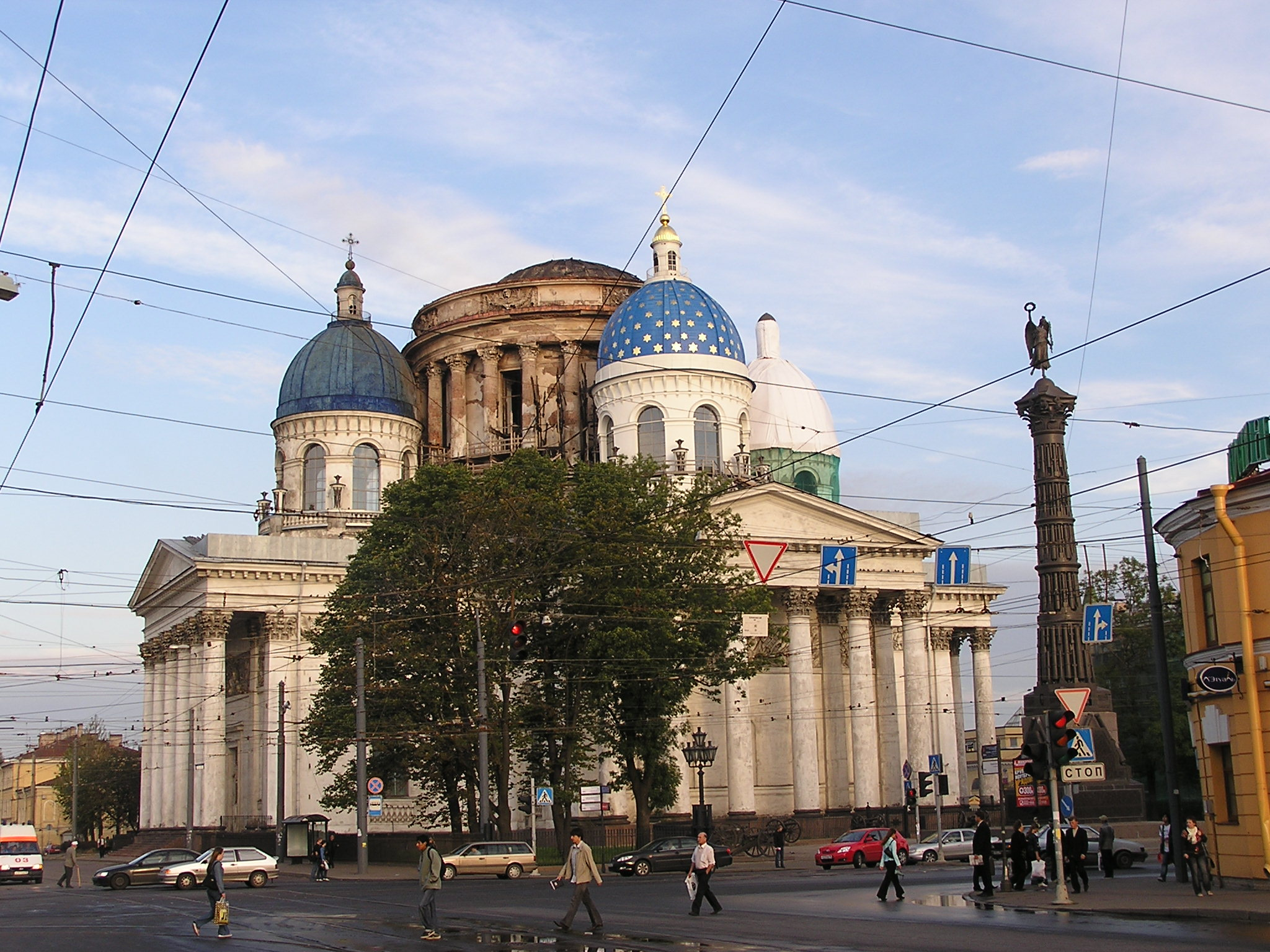 Trinity Cathedral St. Petersburg, Russia, after fire of 25th August 2006.